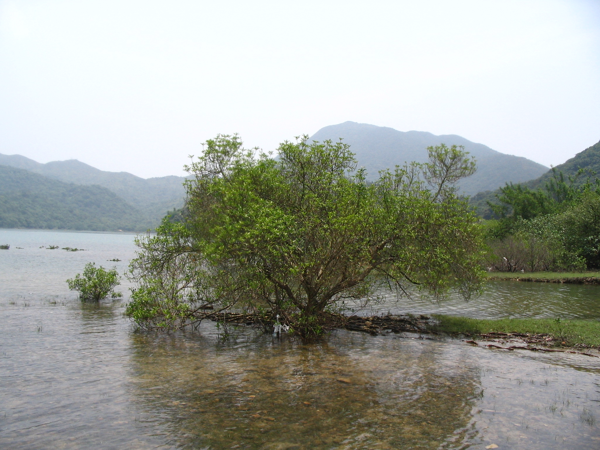 Photo of Kandelia obovata